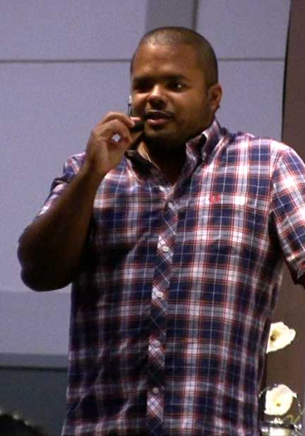 Roger Mooking does a cooking demonstration during the 2012 Canadian National Exhibition, in the Direct Energy Centre.